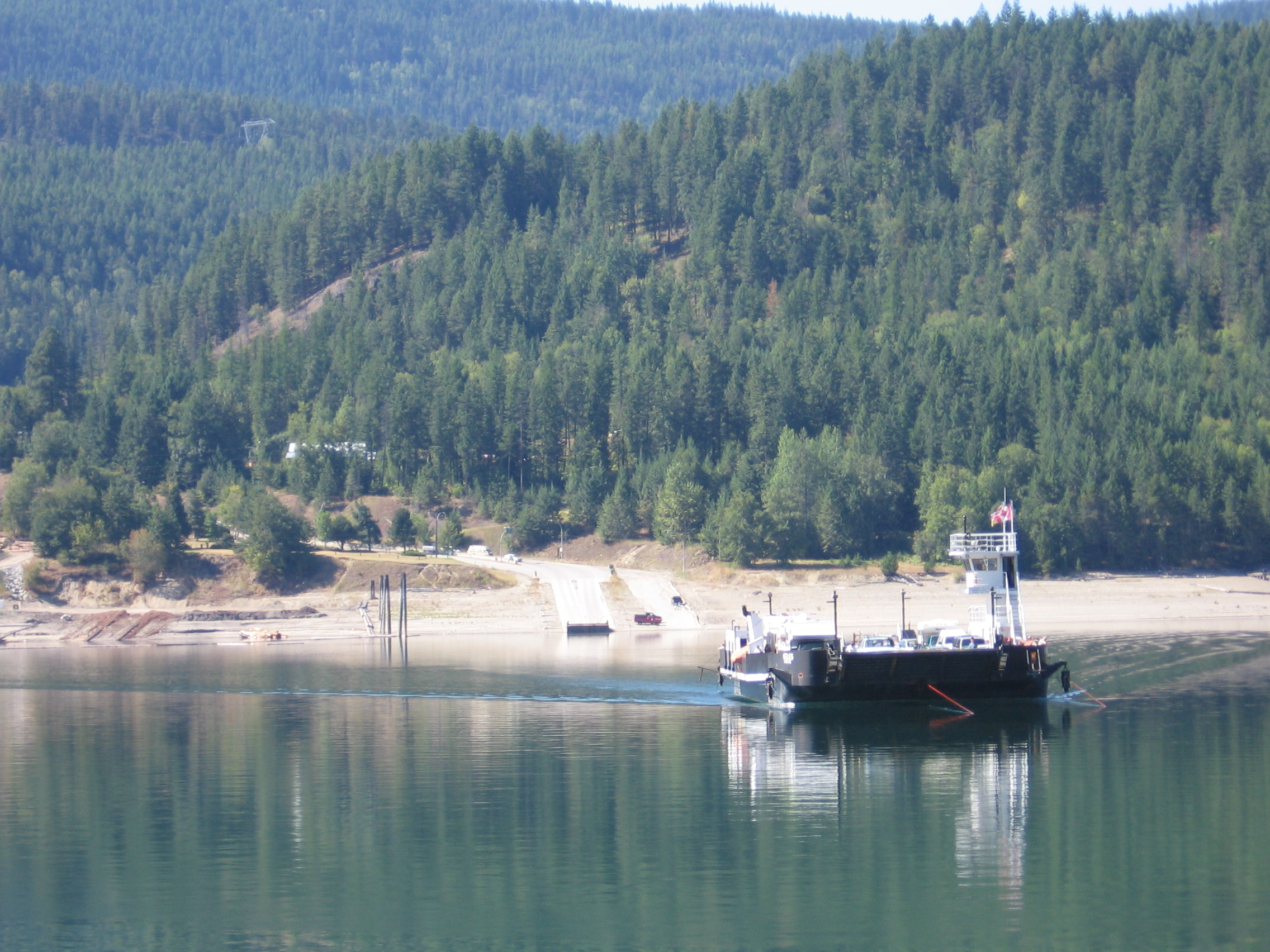 This ferry crosses from Fauquier to Needles, by crossing Arrow Lake.